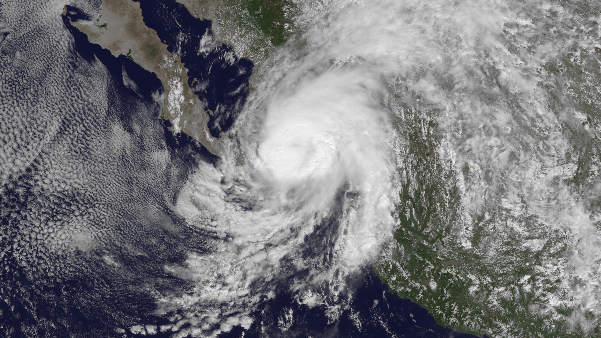 High-resolution visible satellite imagery of Tropical Storm Manuel nearing hurricane intensity on September 18, 2013.